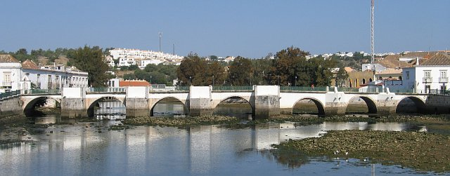 Roman bridge in Tavira, Algarve, Portugal.